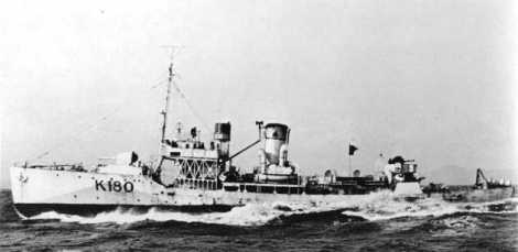 HMCS Collingwood, the first Canadian corvette.